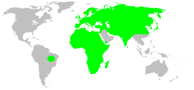 Eresidae habitat distribution, drawn after Platnick: World Spider Catalog 7.0. This is not a precise rendering of the distribution! If you have better information, please replace this map, or send me the info, and i will redraw it.